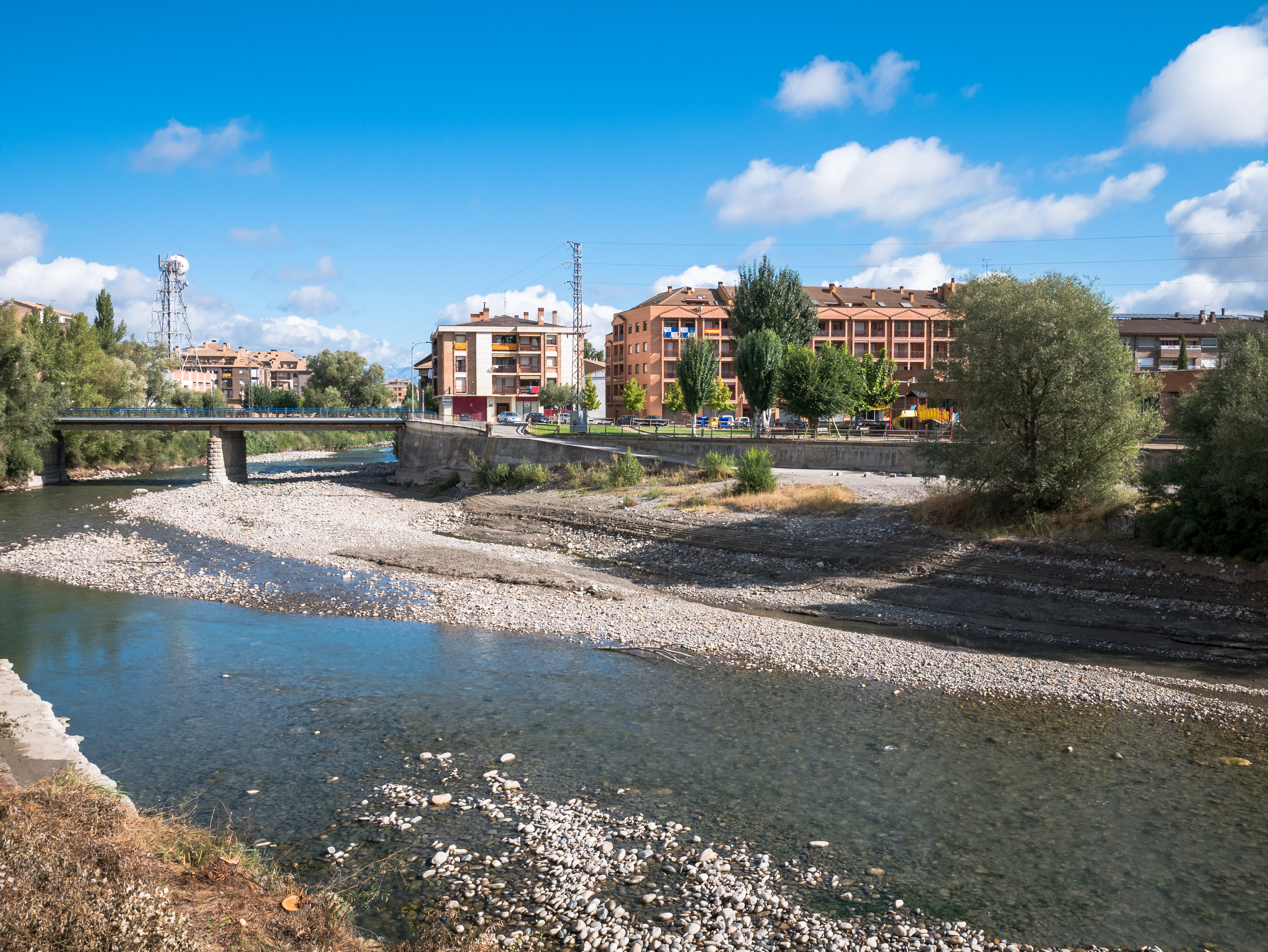 Esera River at Graus. Huesca, Aragon, Spain